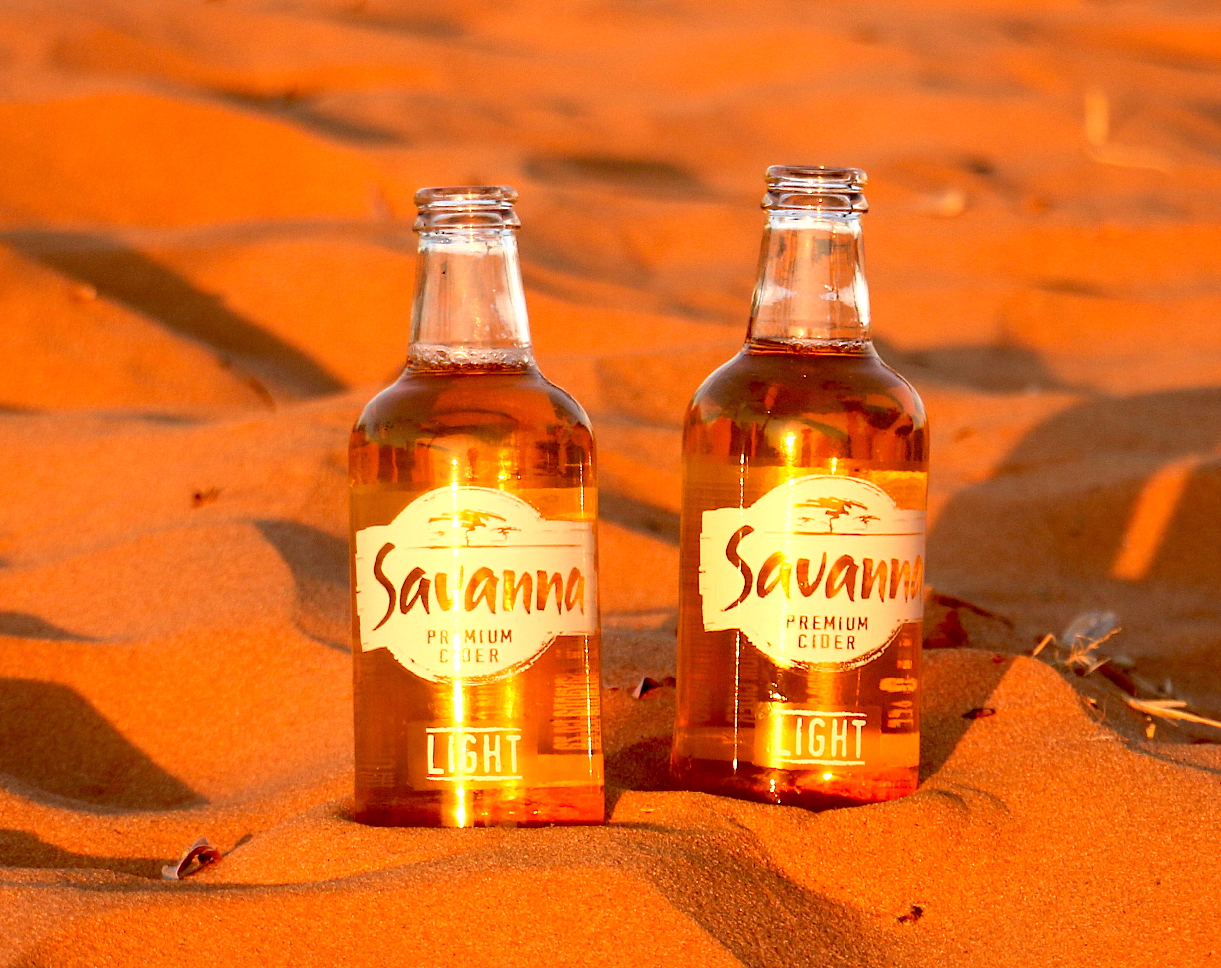 Savanna Light. Cider from South Africa